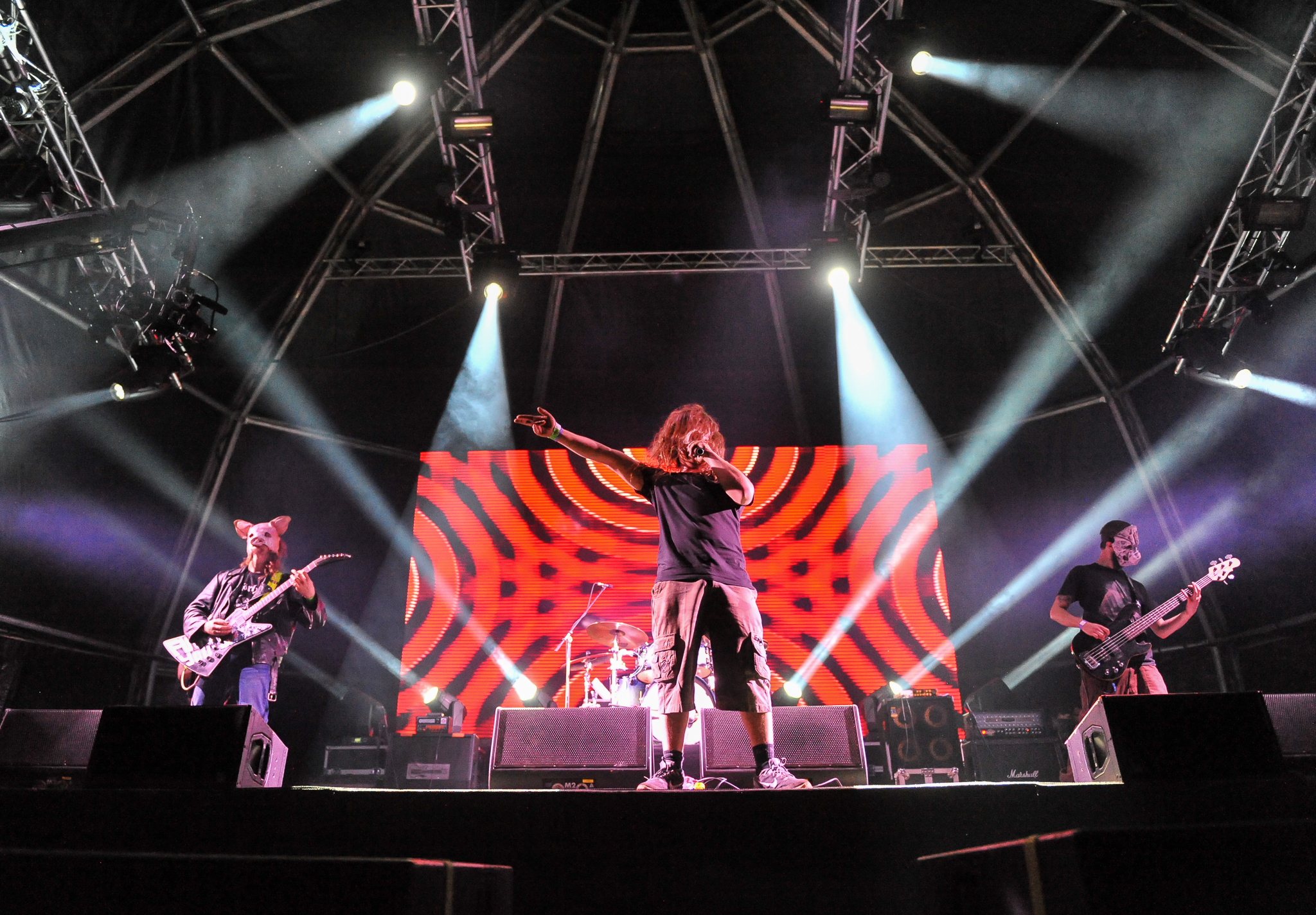 Boargazm live on stage at Oppikoppi Festival 2014